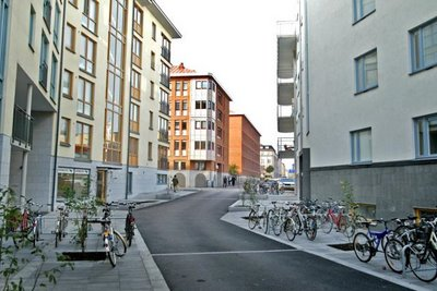 vasastan